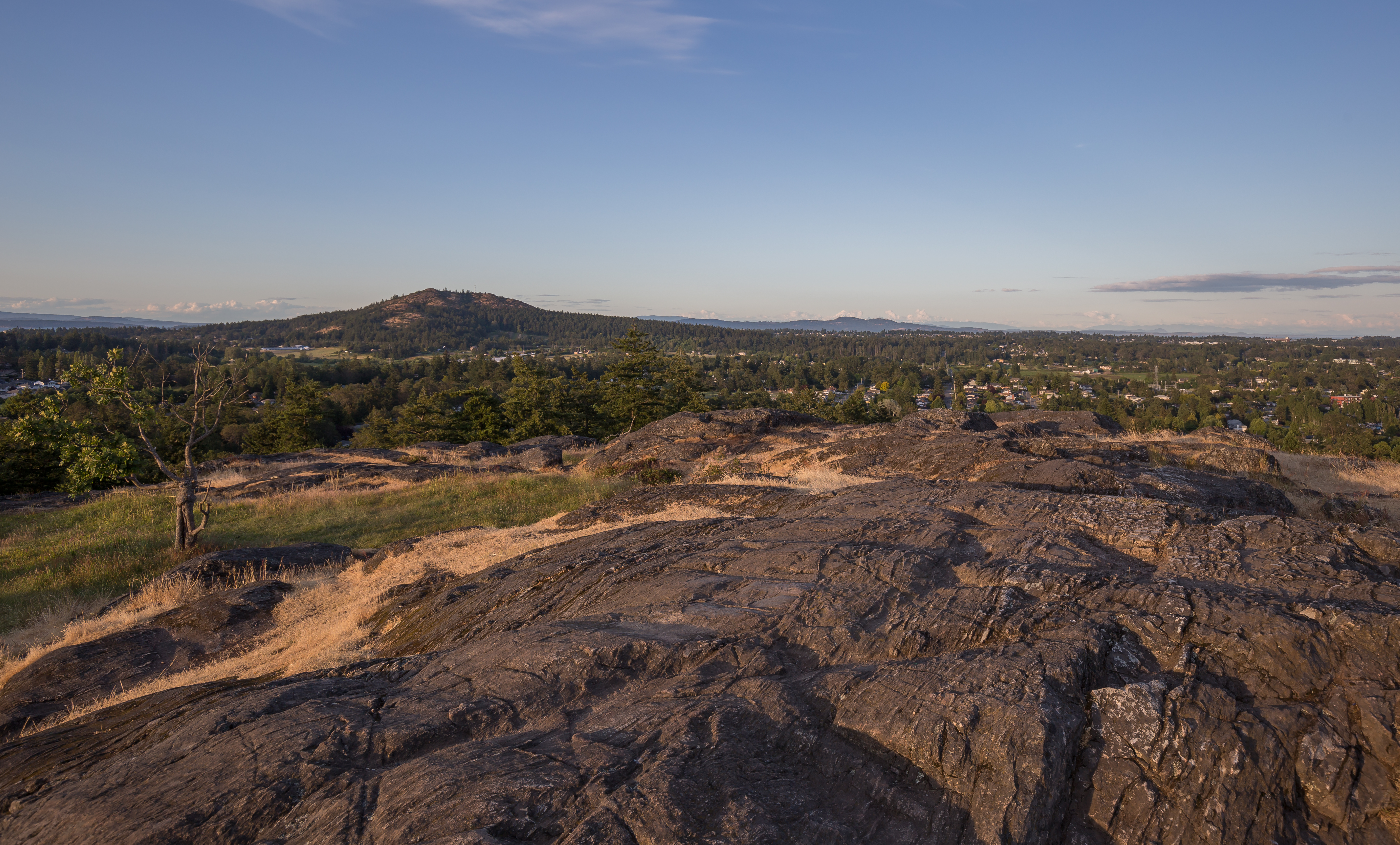 View from Christmas Hill, Saanich, British Columbia, Canada